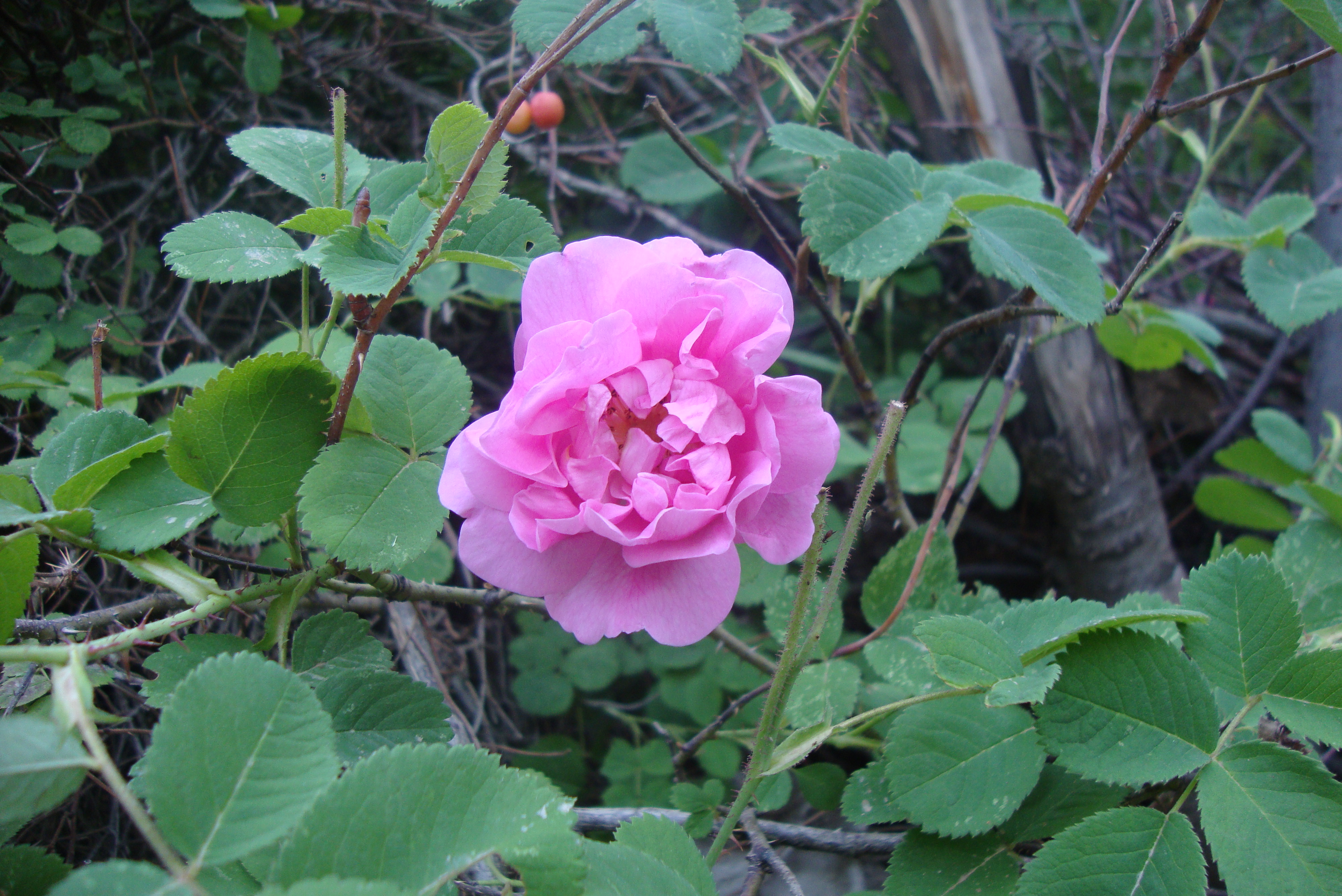 Rosa × damascena from order of rosales and rosaceae family